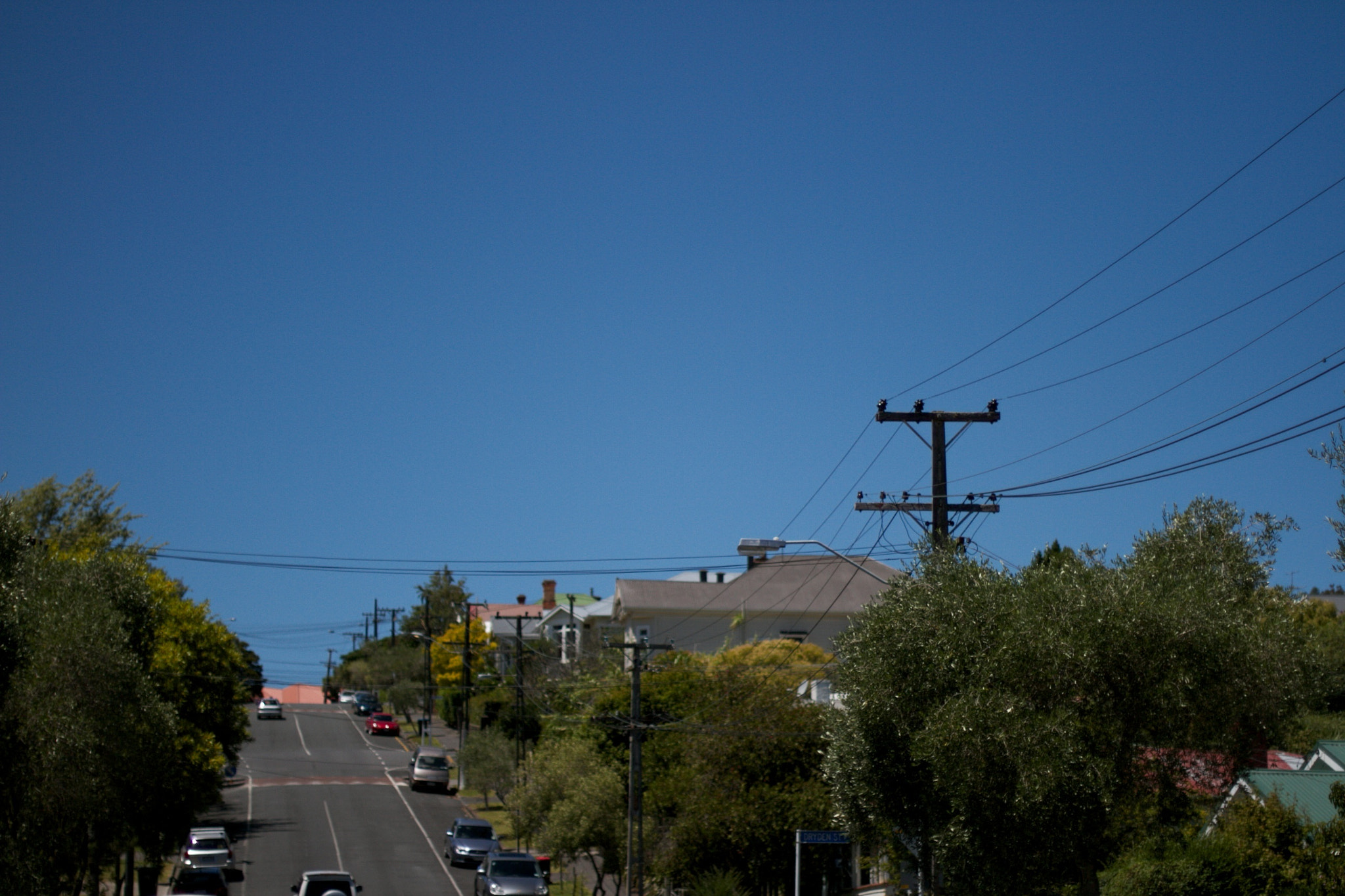 500px provided description: Grey Lynn [#blue sky ,#hill ,#hot day ,#footpath ,#power lines ,#villa]